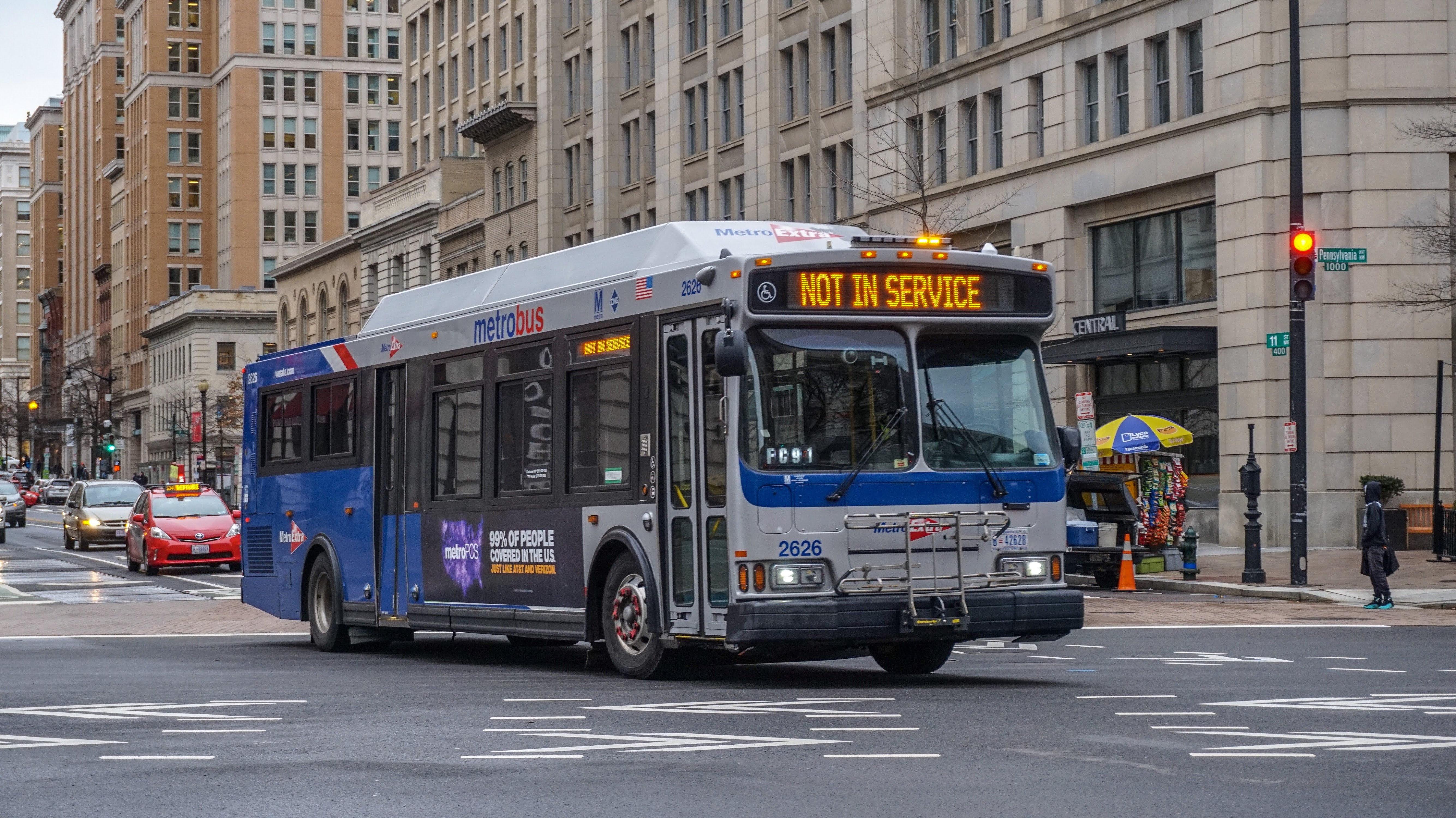 Federal Triangle on 11th St & Pennsylvania Ave